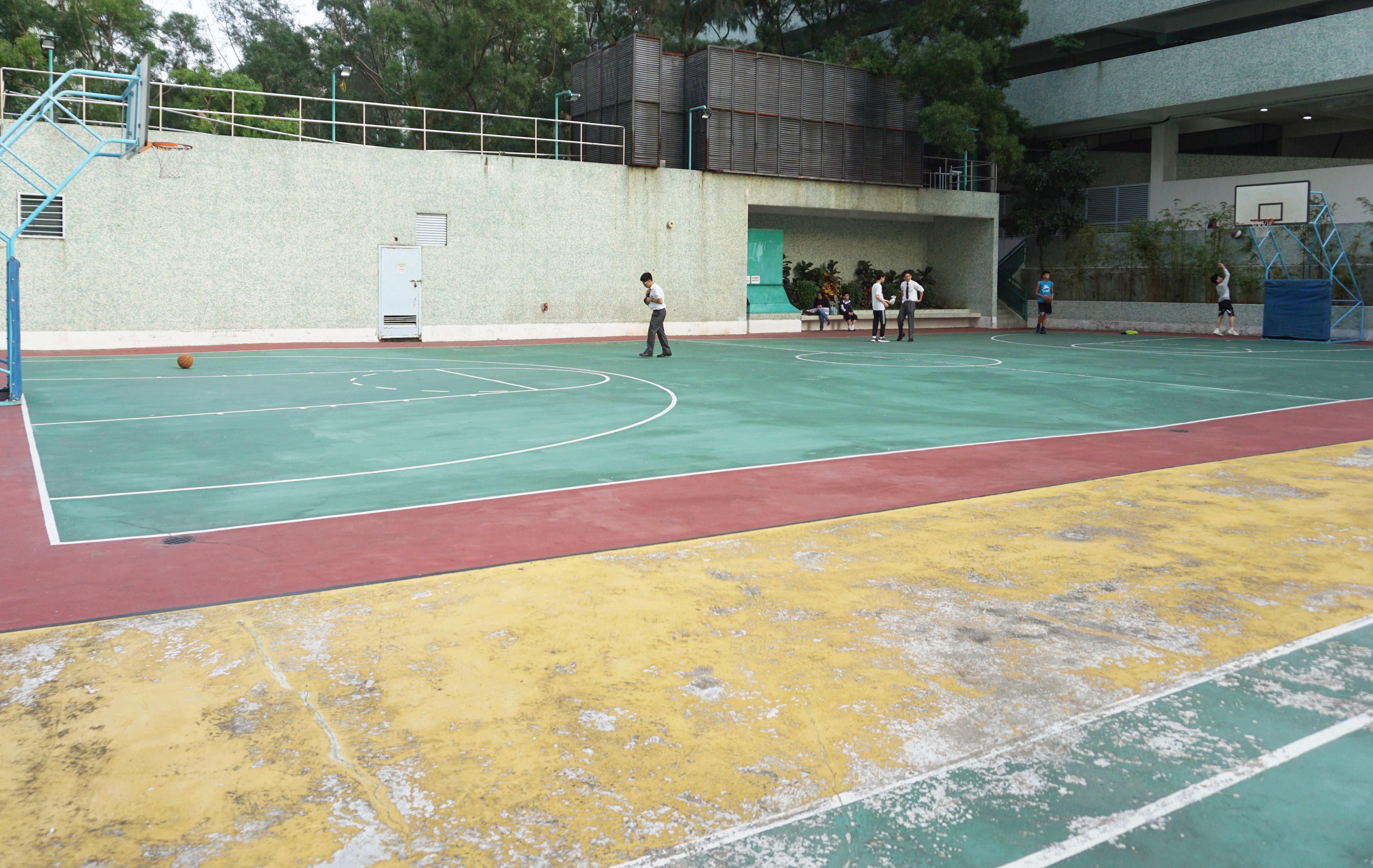 Saddle Ridge Garden in Ma On Shan, Hong Kong.